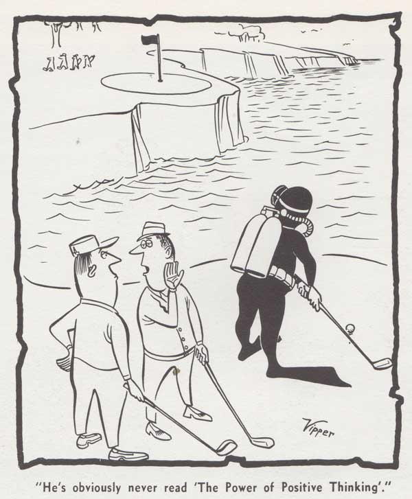 1964 cartoon by Virgil Partch in which a golfer is wearing scuba gear when shooting over the water, and another golfer criticizes him for not having read The Power of Positive Thinking.